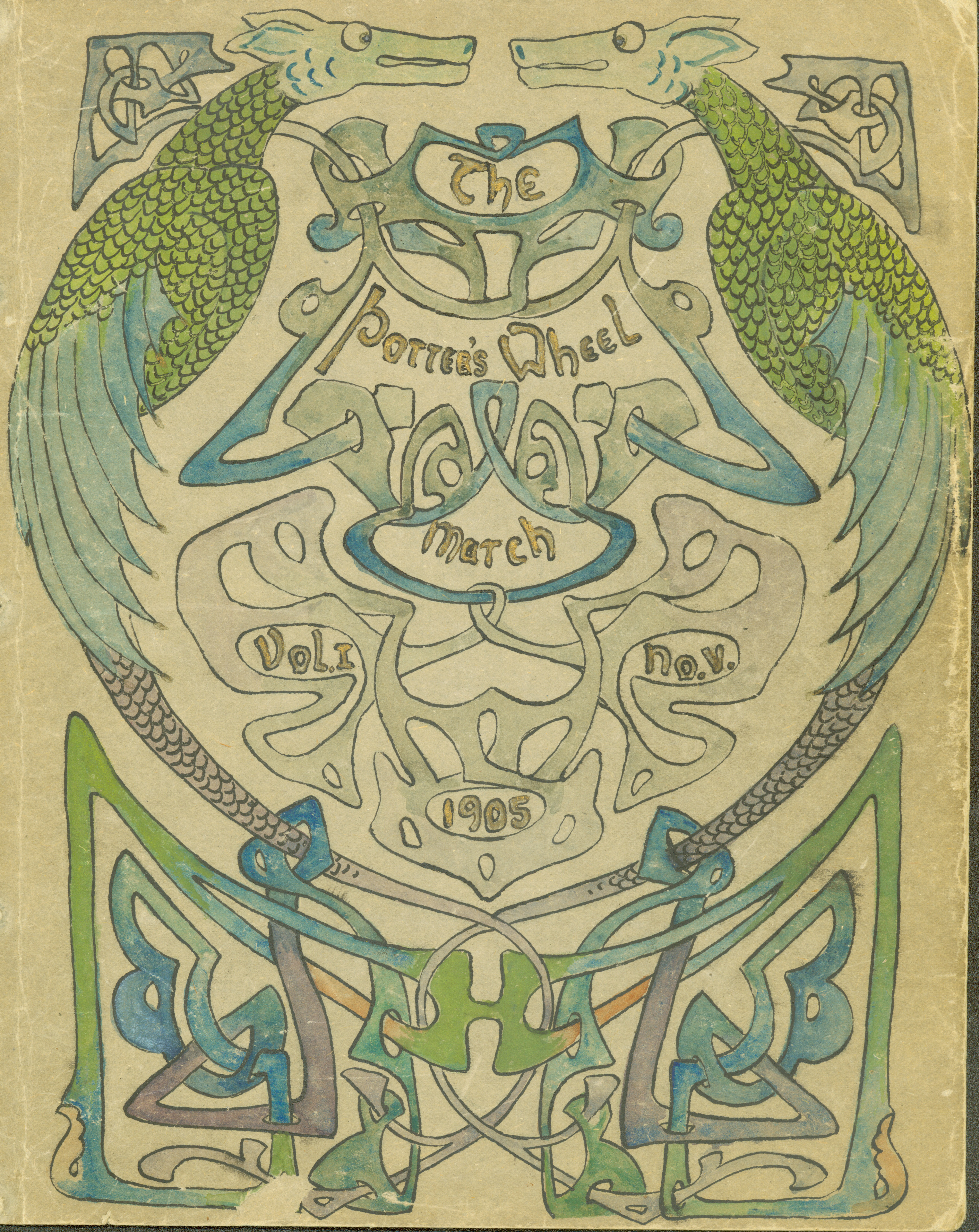 The cover drawn by Vine Colby shows two dragons looking at each other. Issue includes table of contents design and a short story titled "Sacrifice" by Vine Colby; a poem titled "A Birth-Month" by Guida Richey; a short story titled "The Soul and the Gifts" and a short story for children with illustrations titled "The Sum of Things" by Caroline Risque; a poem titled "Night Song of Iseult Deserted" by Sara Teasdale illustrated by Willamina Parrish; photographs and "Rubaiyat Of Friendship" quatrains XIII to XXII by Willamina Parrish; a short story titled "A Human Being"; silhouettes of Grace and Willamina Parrish by Grace Parrish; and short story "Jeremiah and the Potter" by Inez Dutro. Title:The Potter's Wheel, Volume 1, Number 5, March 1905